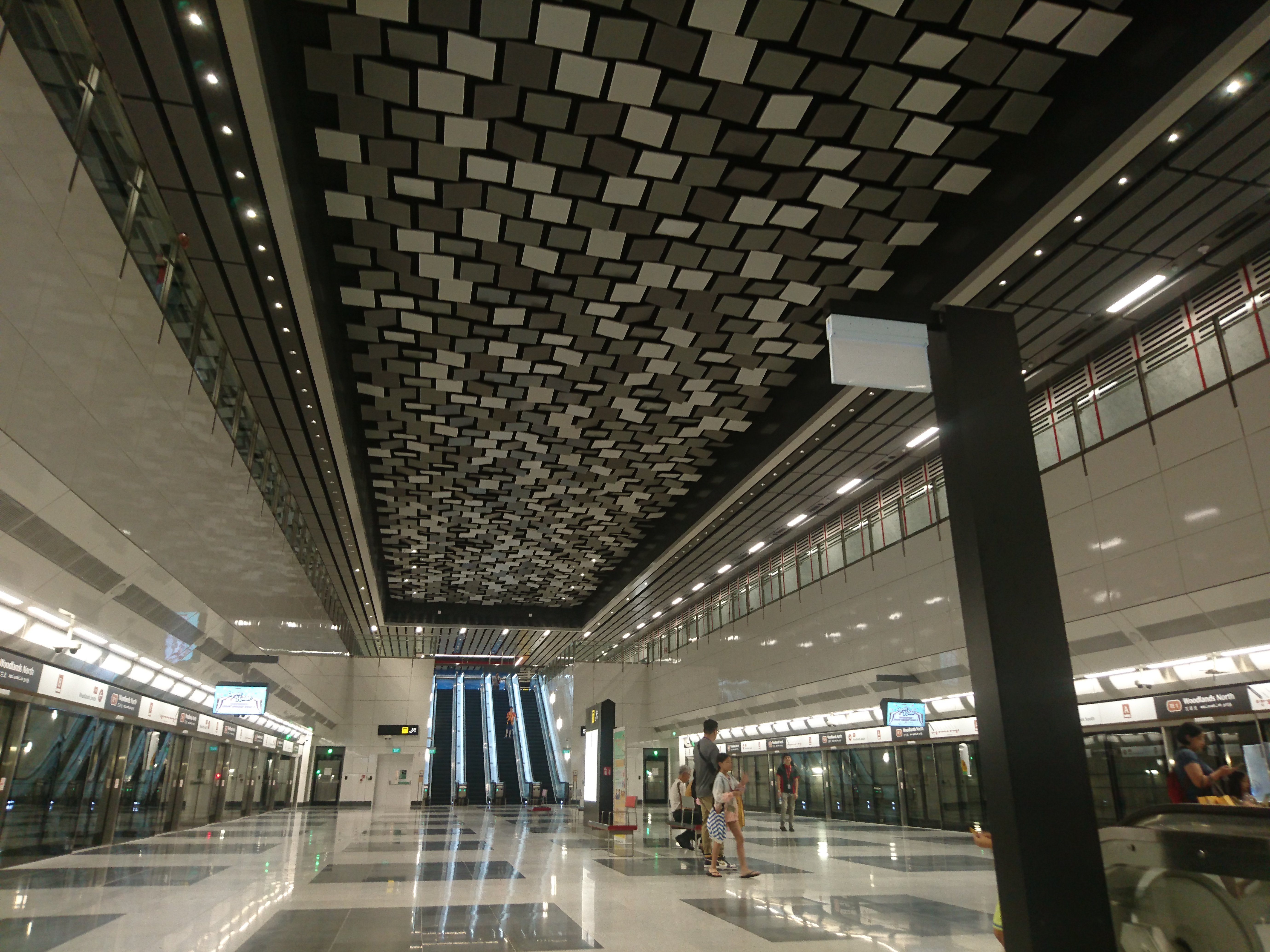 Platform of Woodlands North MRT station, a station of the Thomson-East Coast MRT line in Singapore.